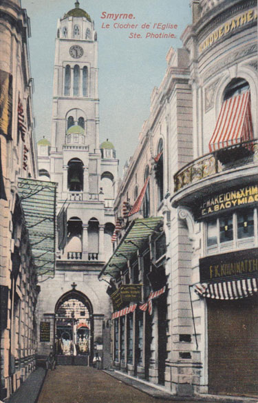 Postcard depicting the belltower of Saint Fotini church in Smyrna